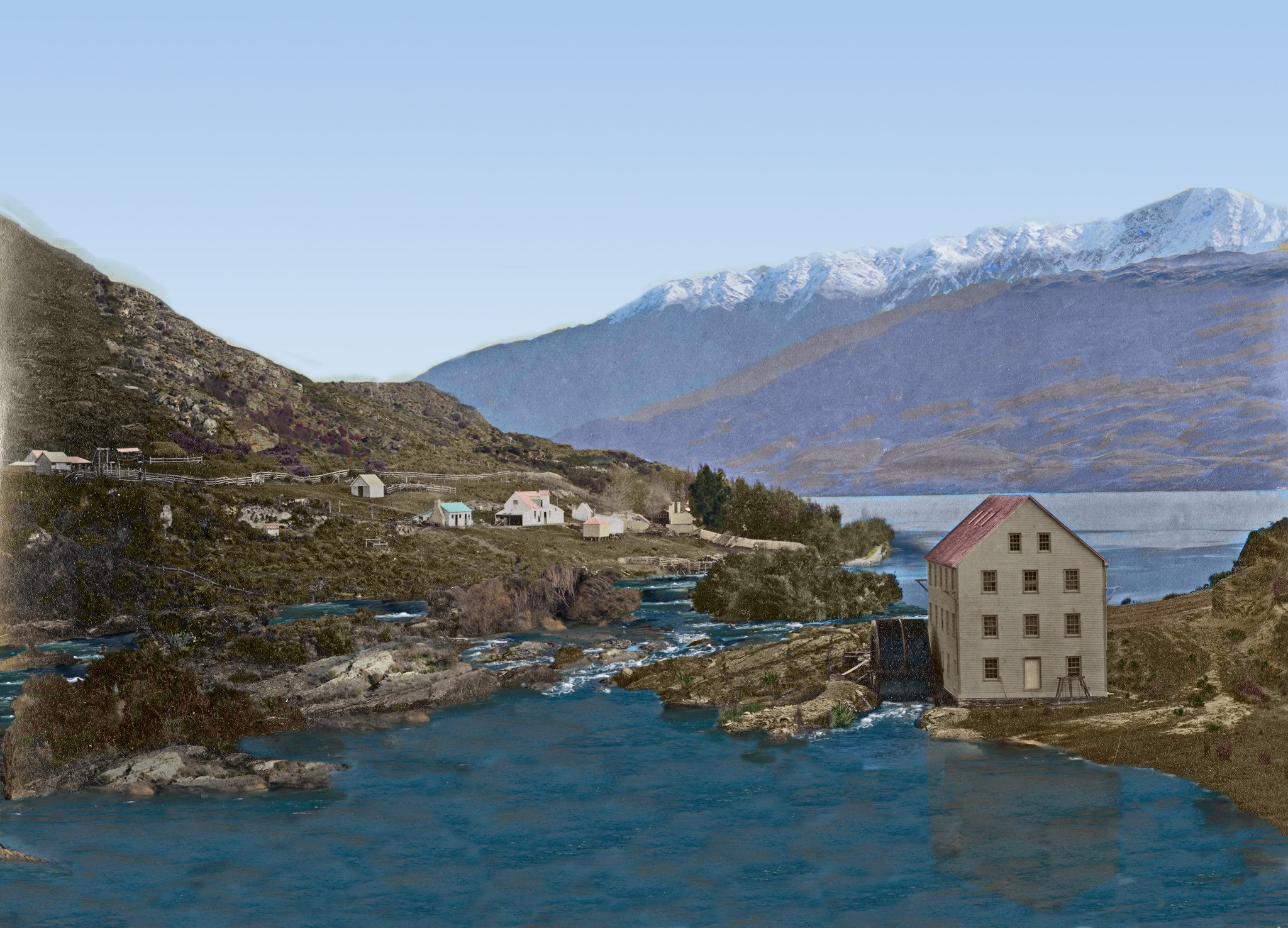 Colourised photo showing the Brunswick Flour Mill opened in 1867. On the other side of the Kawarau River is the homestead founded by Queenstown pioneer William Rees.